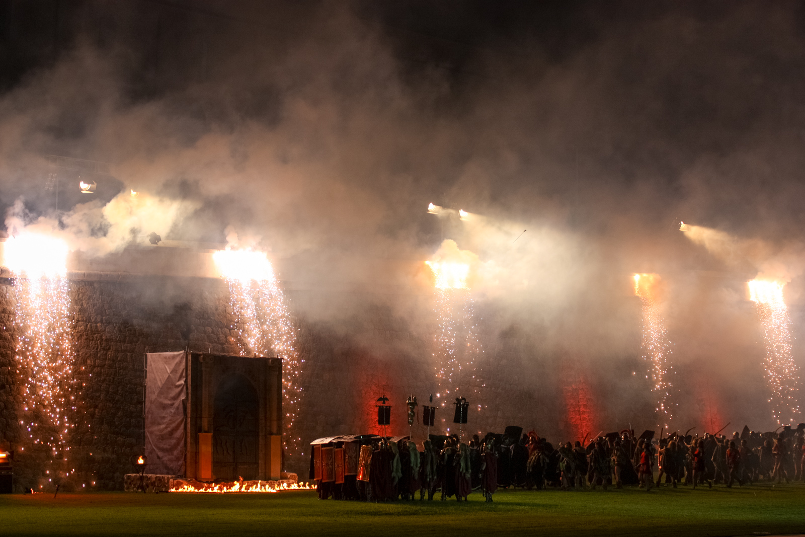 Recreation of the Siege of Qart Hadasht by Roman troops of Scipio Africanus, during the celebrations of Carthaginians and Romans in the Spanish city of Cartagena (Region of Murcia).